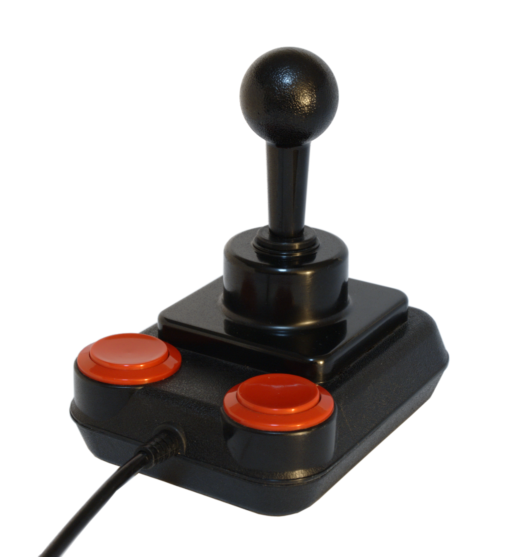 First revision Competition Pro joystick for C64, Amiga from an angle.